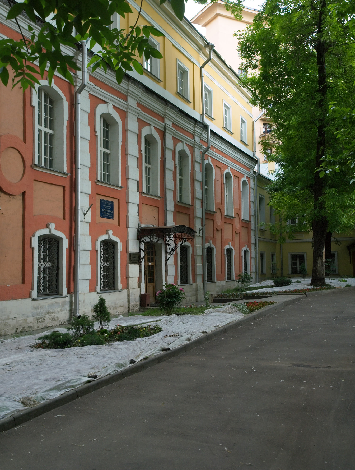 Medical college in Moscow - former Durnovo House, the same Durnovo family who set up Khitrov Market. Khitrovka area lies right behind the camera location.